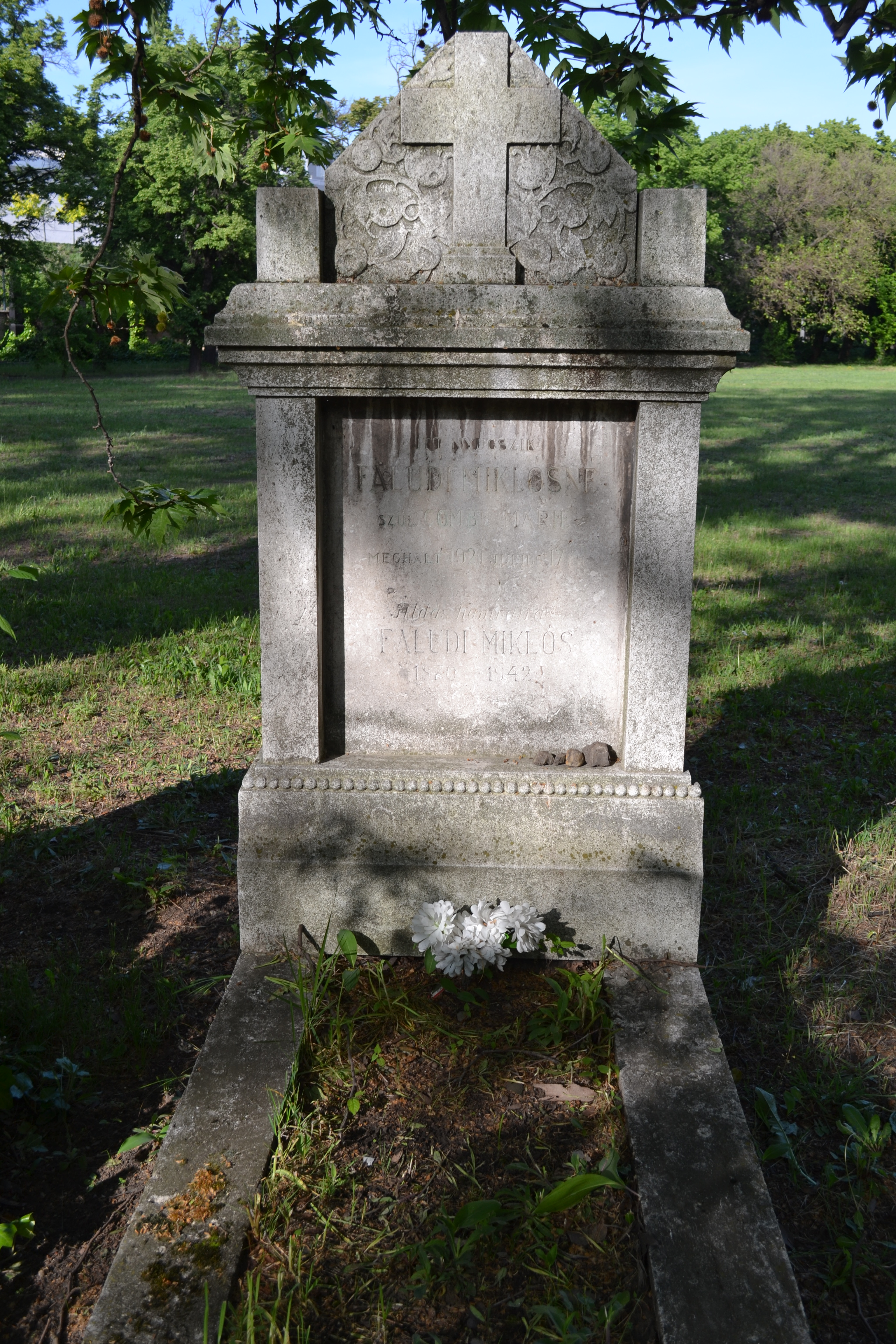 Final resting place of Miklós Faludi and his wife Marie Combe in Kerepesi Cemetery, Budapest.